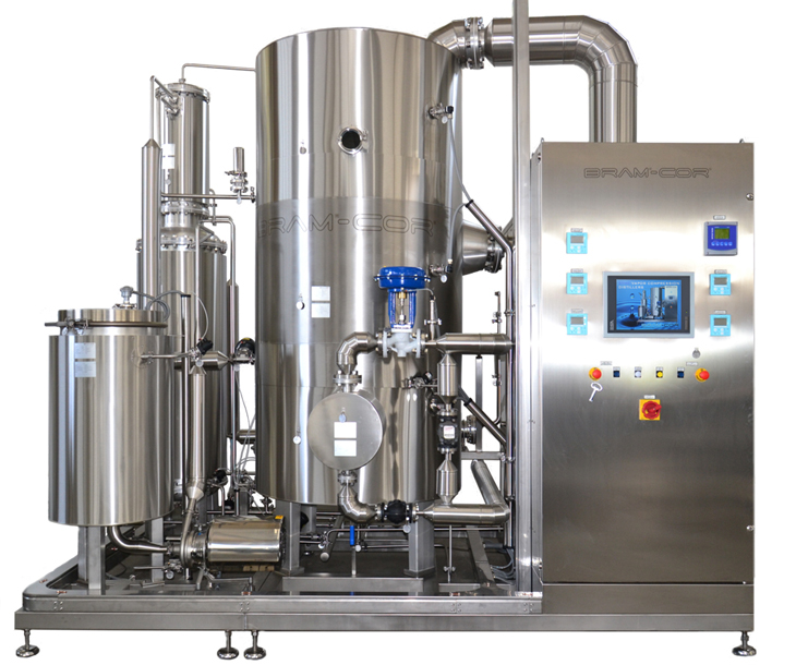 Vapour compression distiller